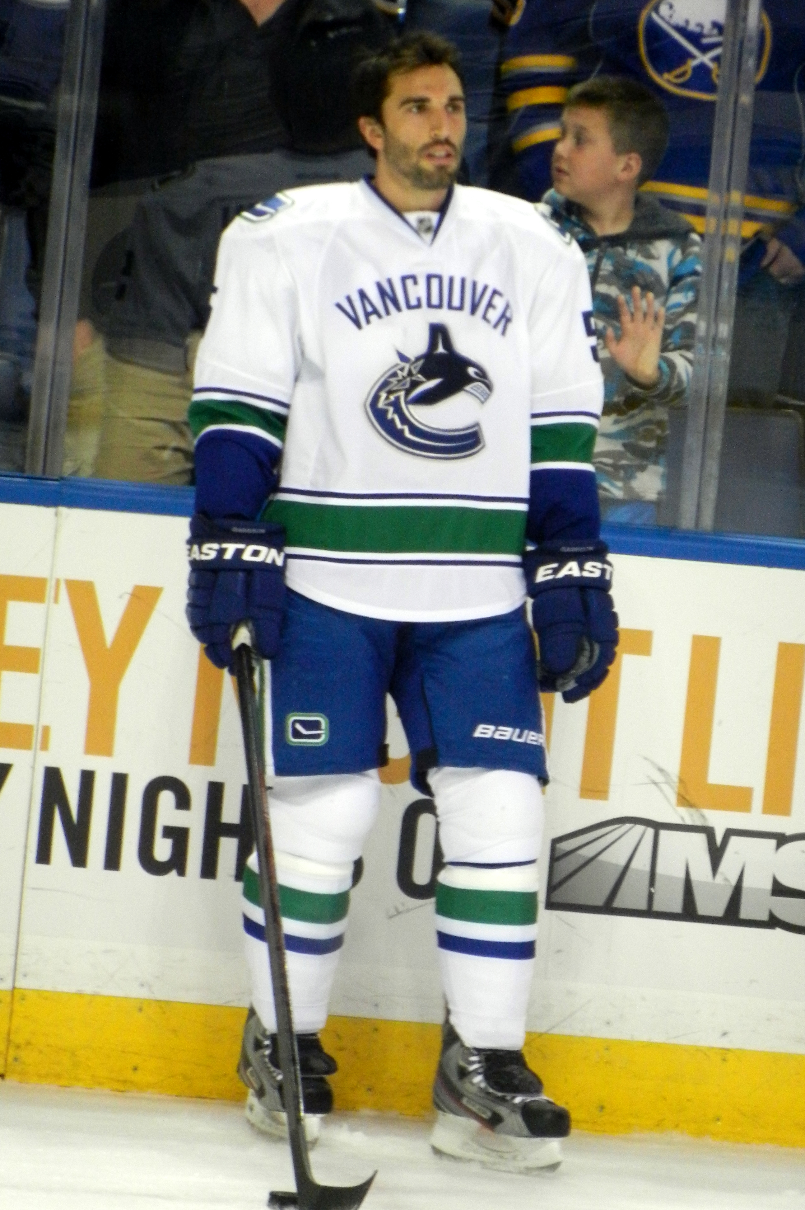 Jason Garrison with the NHL's Vancouver Canucks in 2013 during warmup before a game aginst the Buffalo Sabres